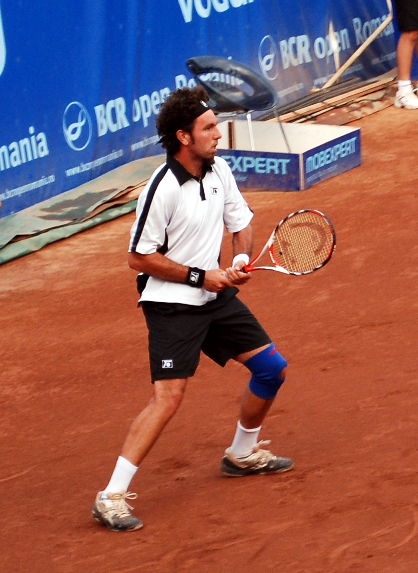 Romanian tennis player Adrian Cruciat at the 2008 BCR Open Romania in Bucharest